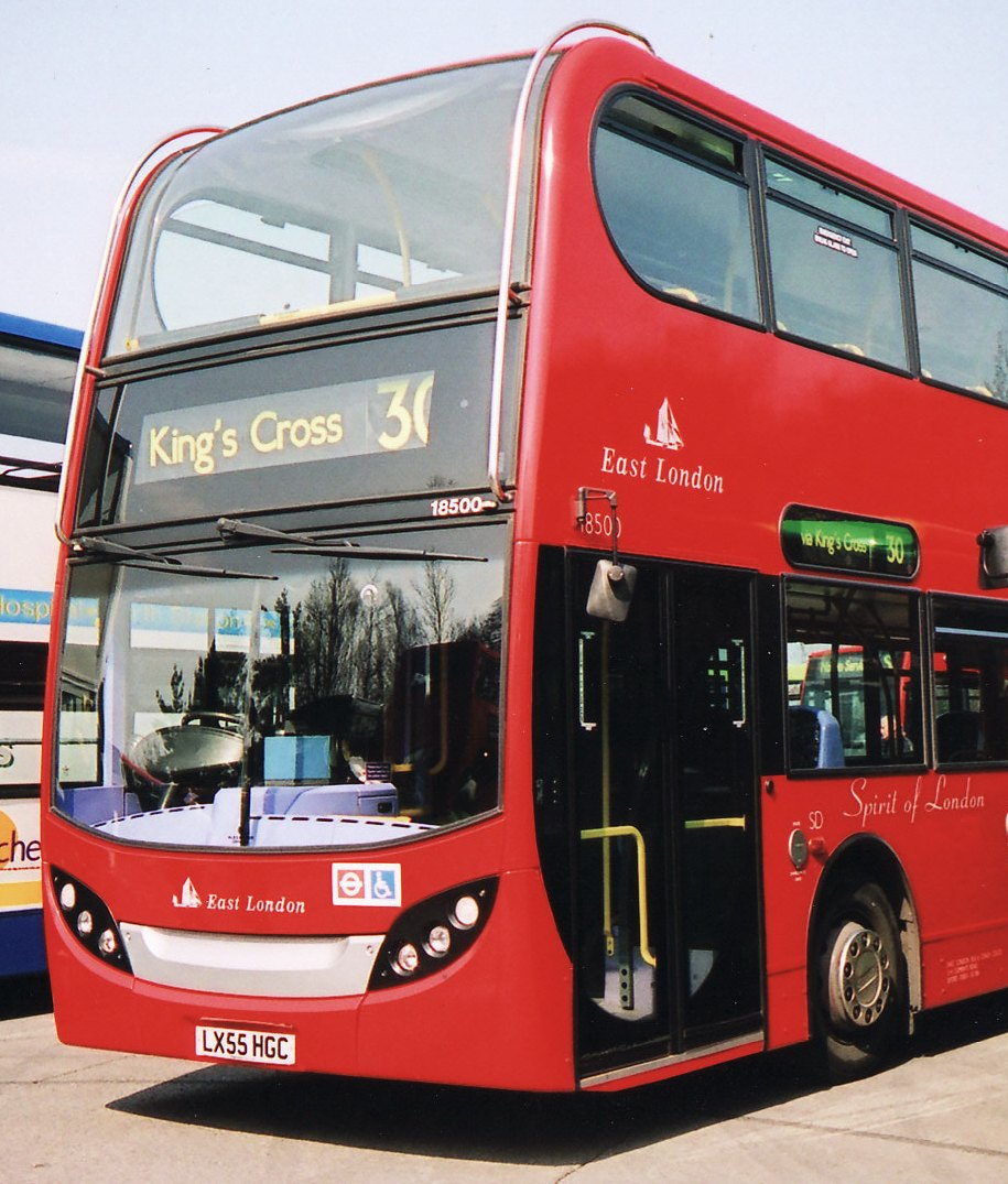 East London bus 18500 Spirit of London (reg. LX55 HGC), pictured at the 2007 Cobham bus museum rally at Longcross test track. Named as a tribute to the victims of the 7 July 2005 London bombings, by this time it's wearing the East London Bus Group's livery for East London, but it still hasn't received the name on the front.